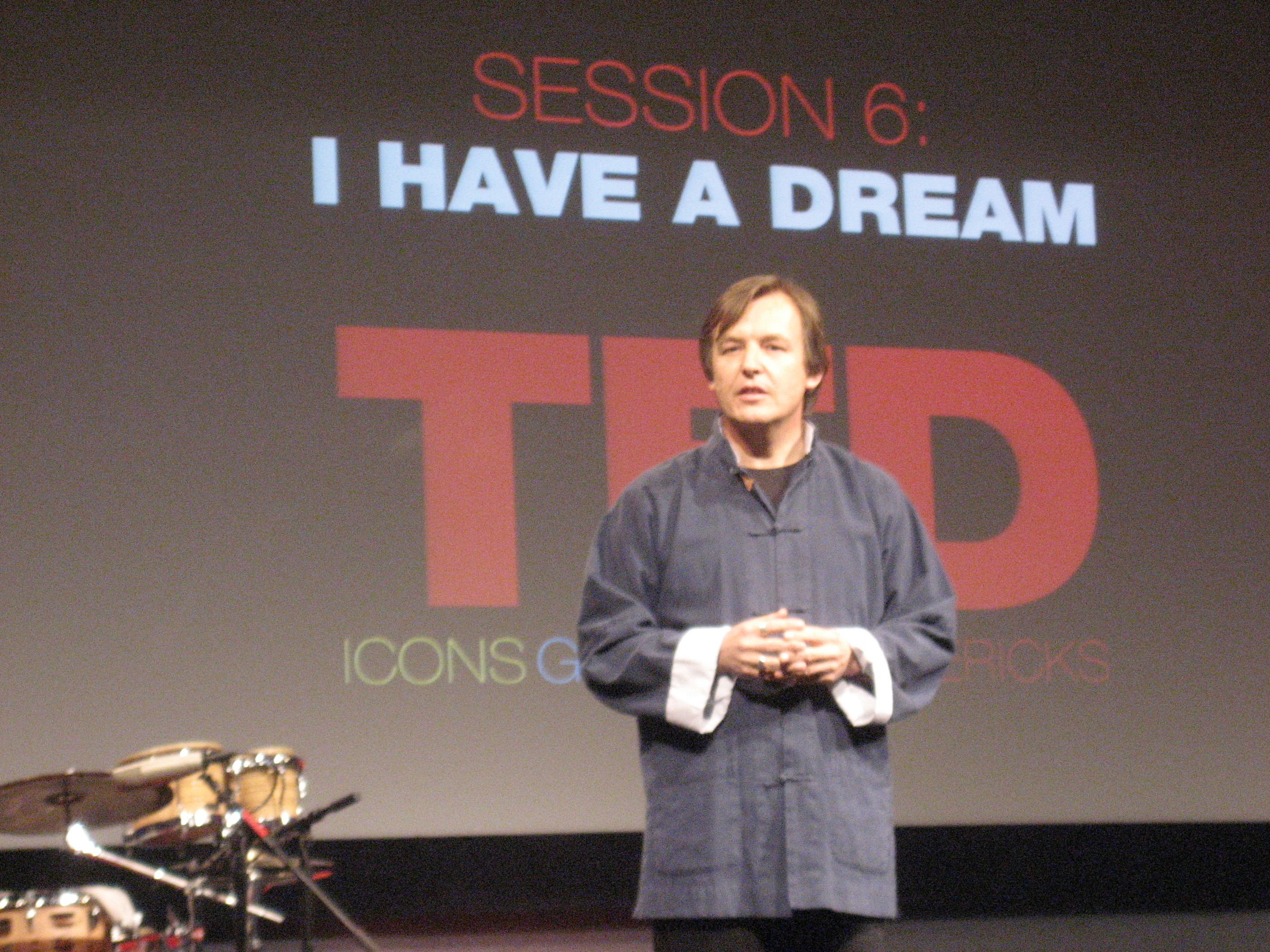 Chris Anderson is the curator of the TED (Technology, Entertainment, Design) Conference